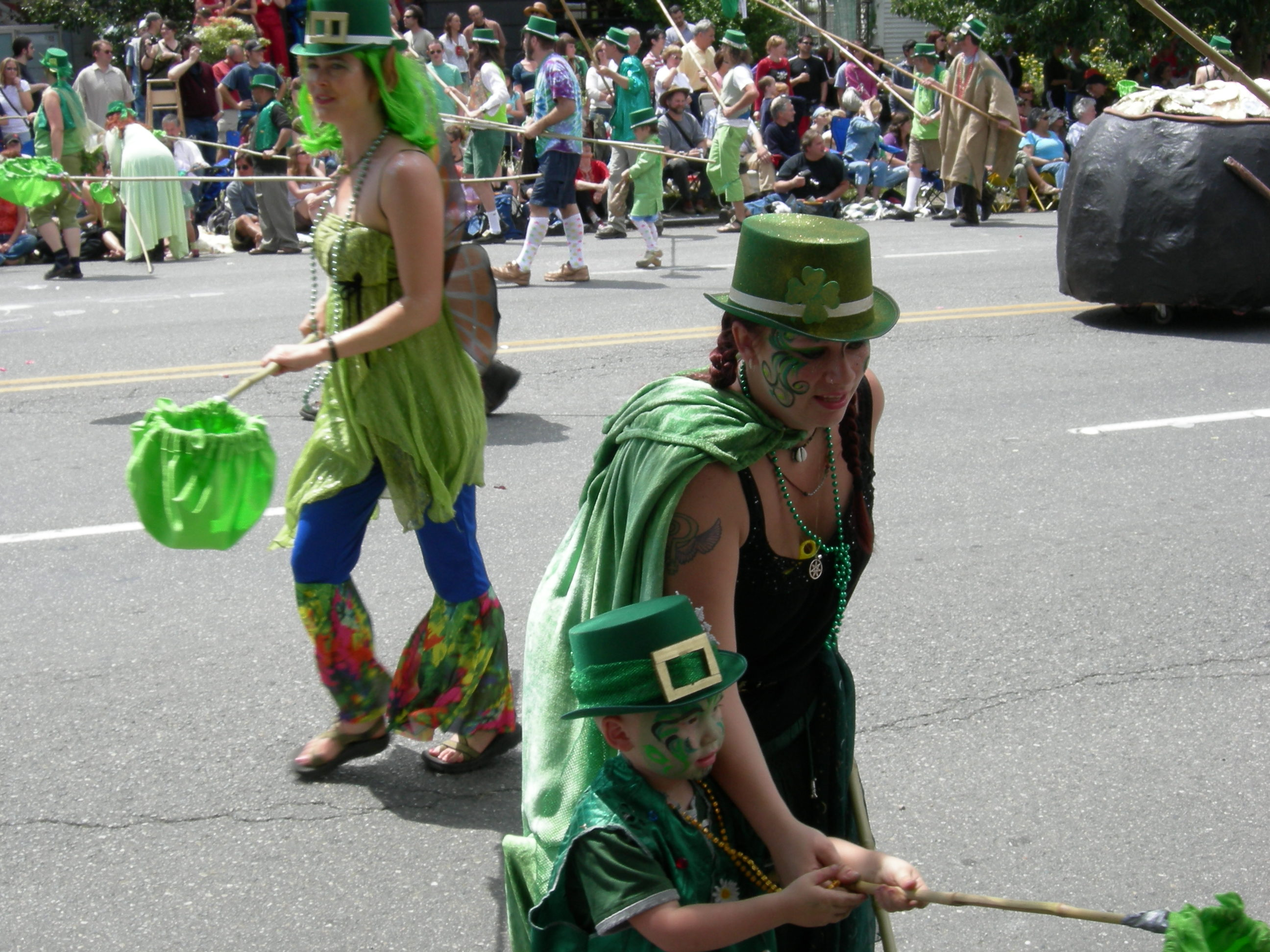 "Leprechauns" at the 2007 Summer Solstice Parade and Pageant, Fremont Fair, Seattle, Washington. The leprechauns "work the crowd" during the parade, raising money for local anti-poverty programs.